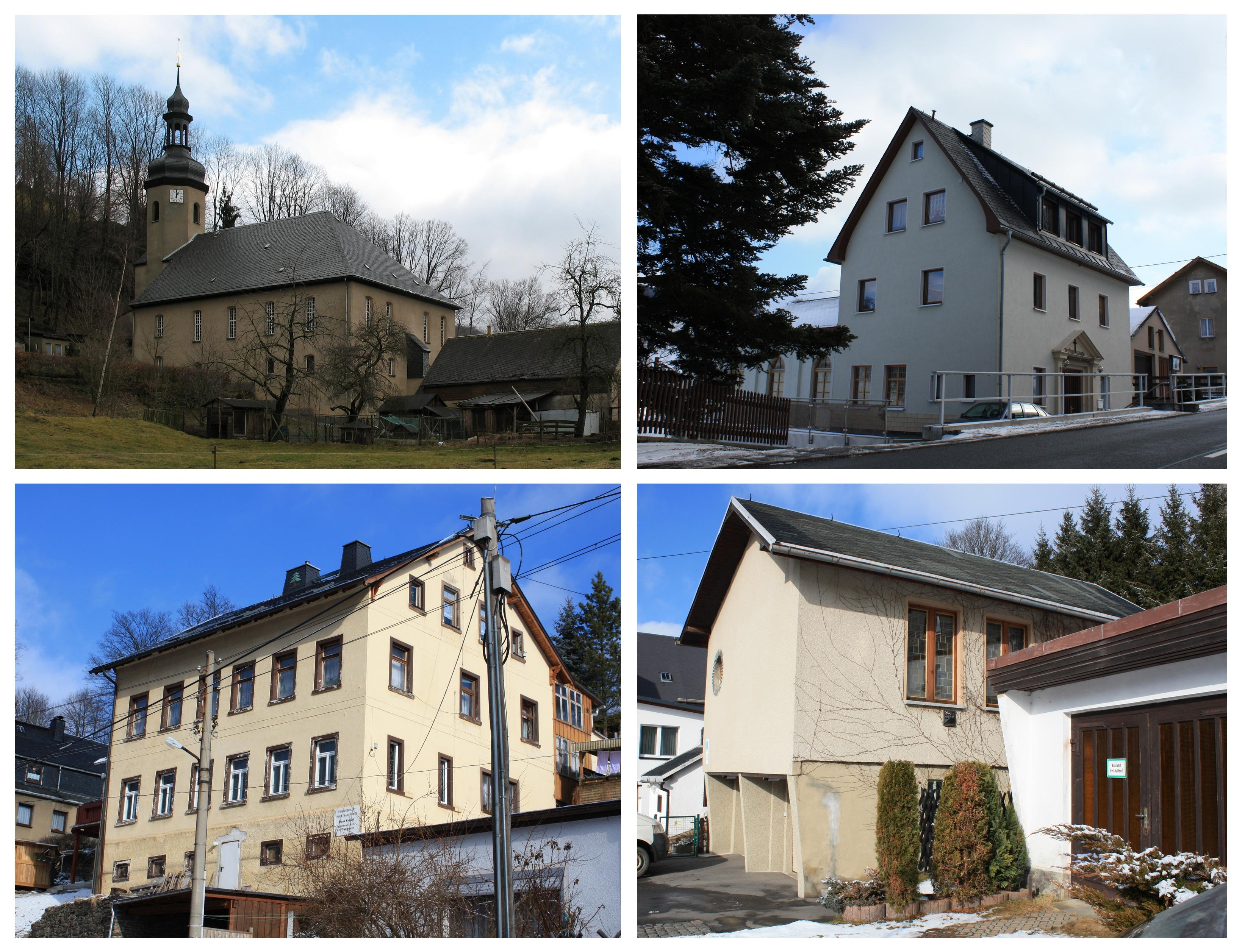 Church buildings in Rittersgrün, clockwise from upper left: Lutheran church (consecrated in 1693) Landeskirchliche Gemeinschaft parish hall (consecrated in 1924) New Apostolic Church parish hall Methodist Church parish hall